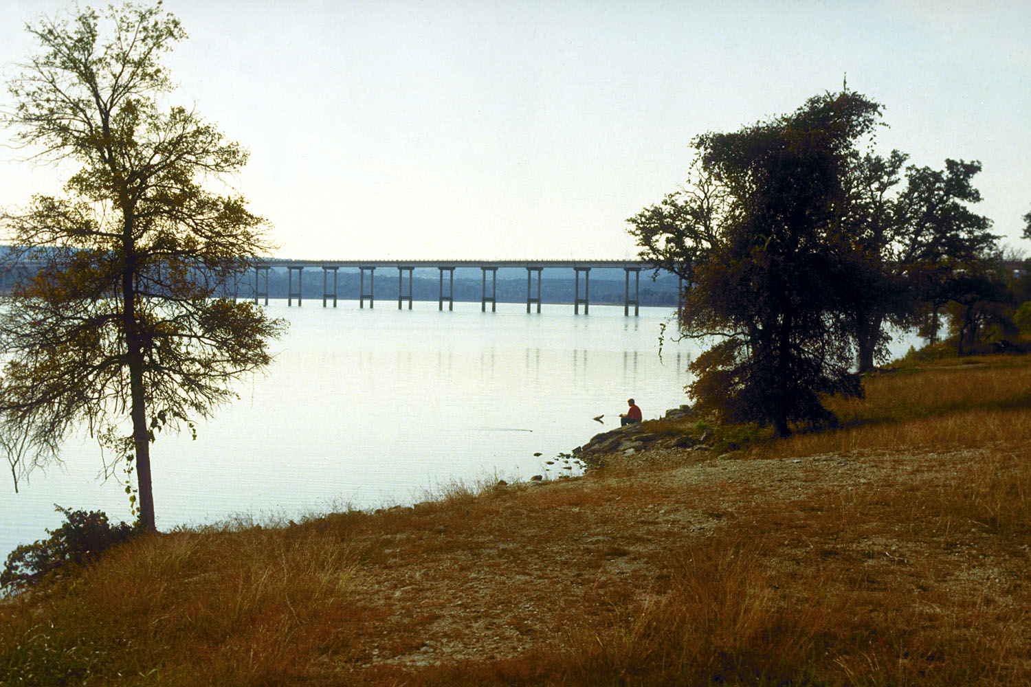 Stillhouse Hollow Lake on the Lampasas River in Bell County, Texas, USA. The lake is impounded behind Stillhouse Hollow Dam. This picture was taken near the upper end of the lake, approximately 7 miles (11 km) east of the dam. The location of this picture is approximately 8 miles (13 km) southeast of Killeen, Texas. The bridge carries Farm Road 3481 across the lake. Coordinates: 31°0′33.29″N 97°38′54.14″W / 31.0092472°N 97.6483722°W